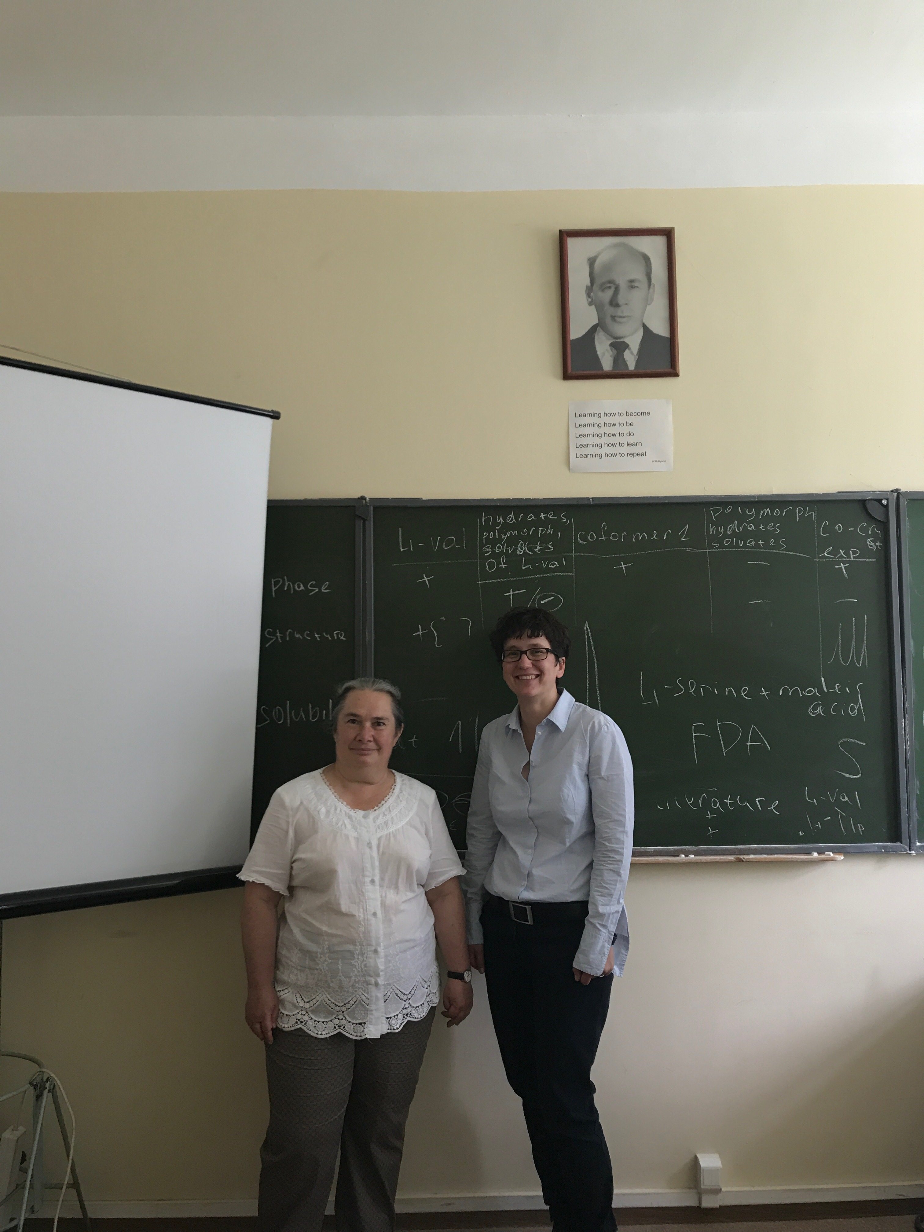 Prof. Elena Boldyreva (left) and Dr. Franziska Emmerling (right) during a meeting in Novosibirsk